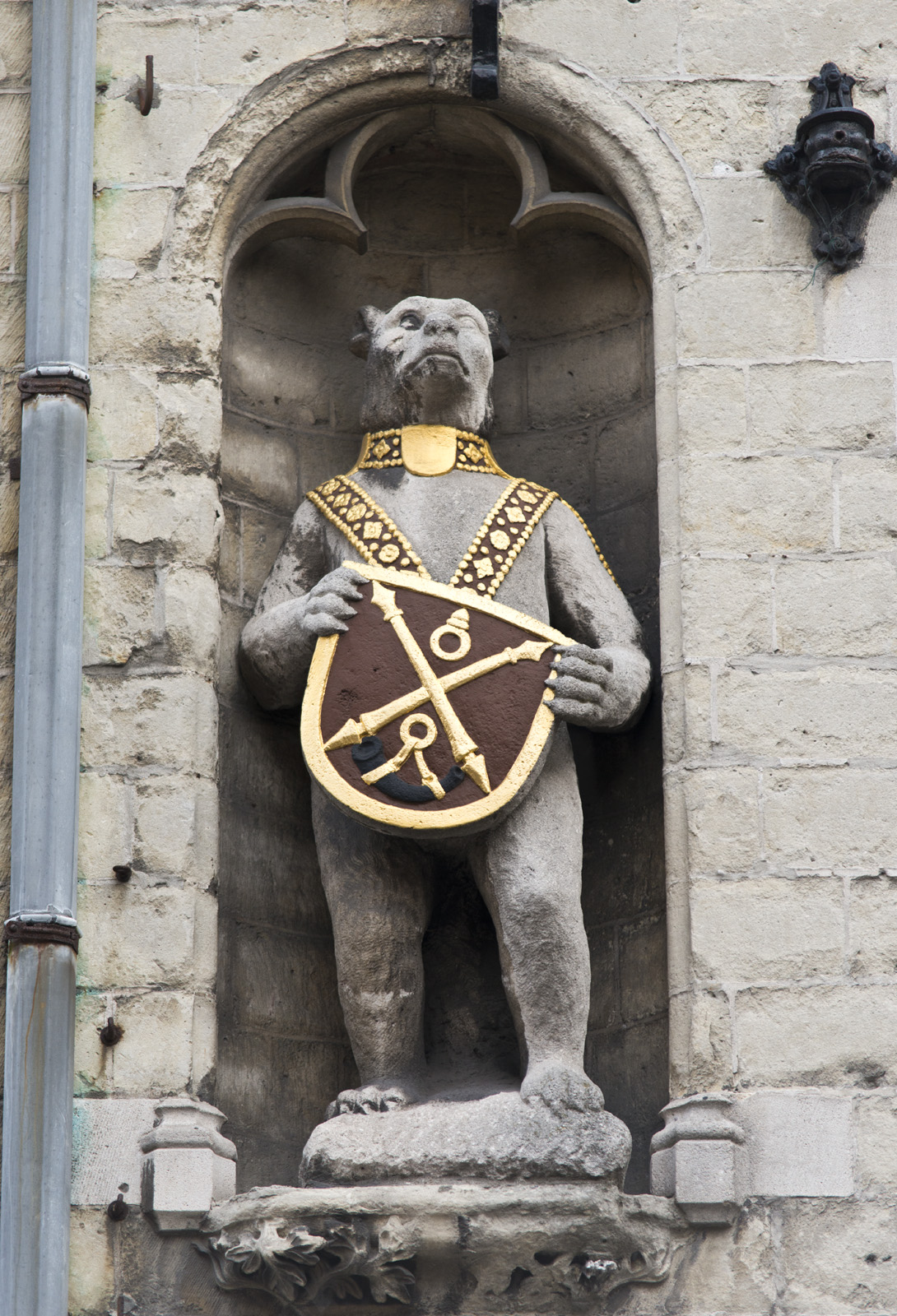 Bear